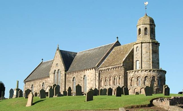 St Athernase